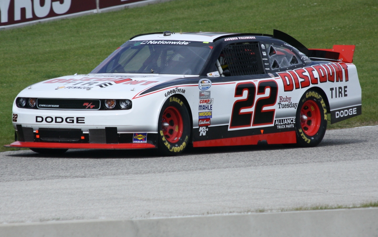 NASCAR driver Jacques Villeneuve racing his stock car at Road America at the 2011 Bucyros 200 Nationwide Series race.